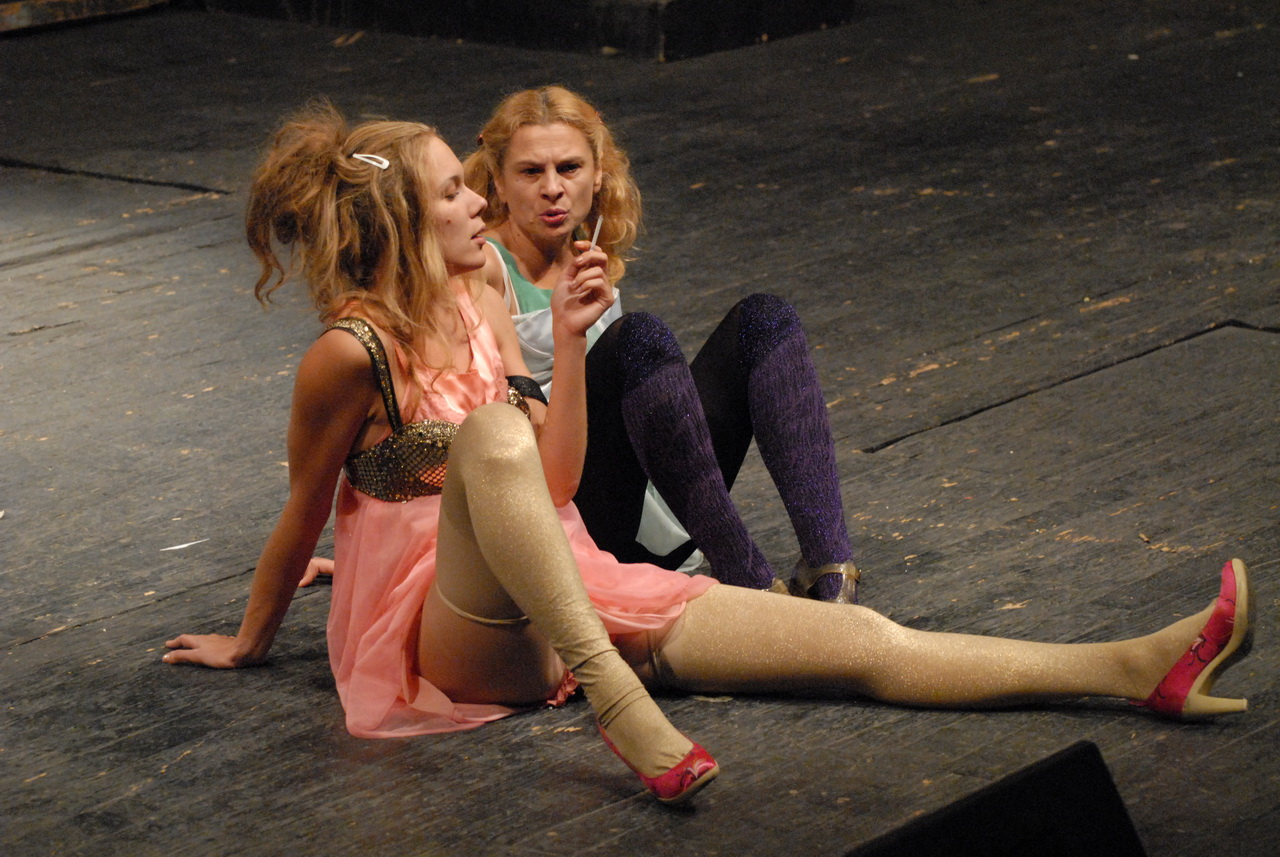 "Doll Ship" written by Milena Marković, directed by Ana Tomović, Drama of SNT, Novi Sad, 2008/09; Milica Grujičić, Jasna Đuričić Srpski (latinica): "Brod za lutke" Milene Marković u režiji Ane Tomović, Drama SNP-a, Novi Sad, 2008/09; Milica Grujičić, Jasna Đuričić Српски (ћирилица): "Брод за лутке" Милене Марковић у режији Ане Томовић, Драма СНП-а, Нови Сад, 2008/09; Милица Грујичић, Јасна Ђуричић